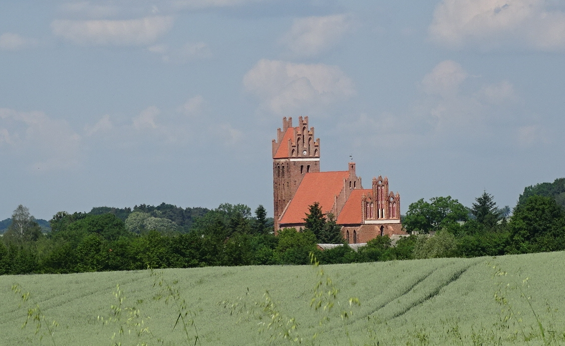 Lalkowy, Pomerania, Poland. Parish church. Turn of the 14th century.